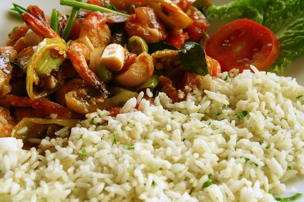 Rice & Prawns සිංහල: ඉස්සෝ සමඟ බත්